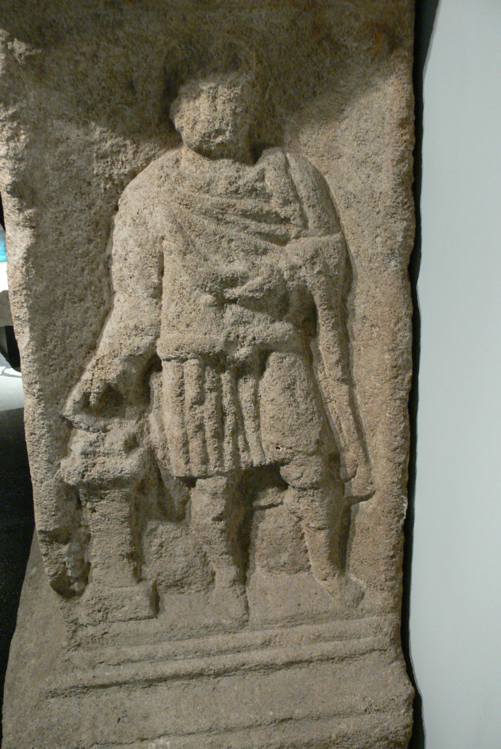 Roman Museum, Vienna. Votive altar ( 279 AD ) for Iupiter Optimus Maximus - detail: Ancient Roman officer at a sacrifice.